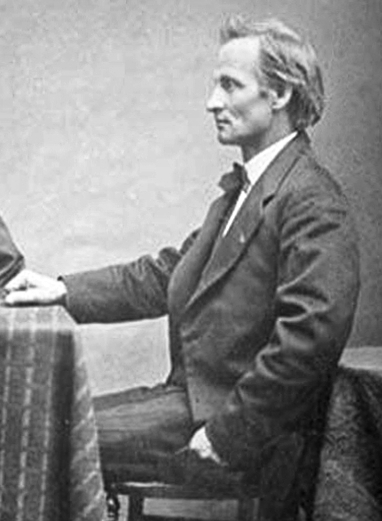 Picture of Alvan Clark (center), and his sons, Alvan Graham Clark and George Bassett Clark